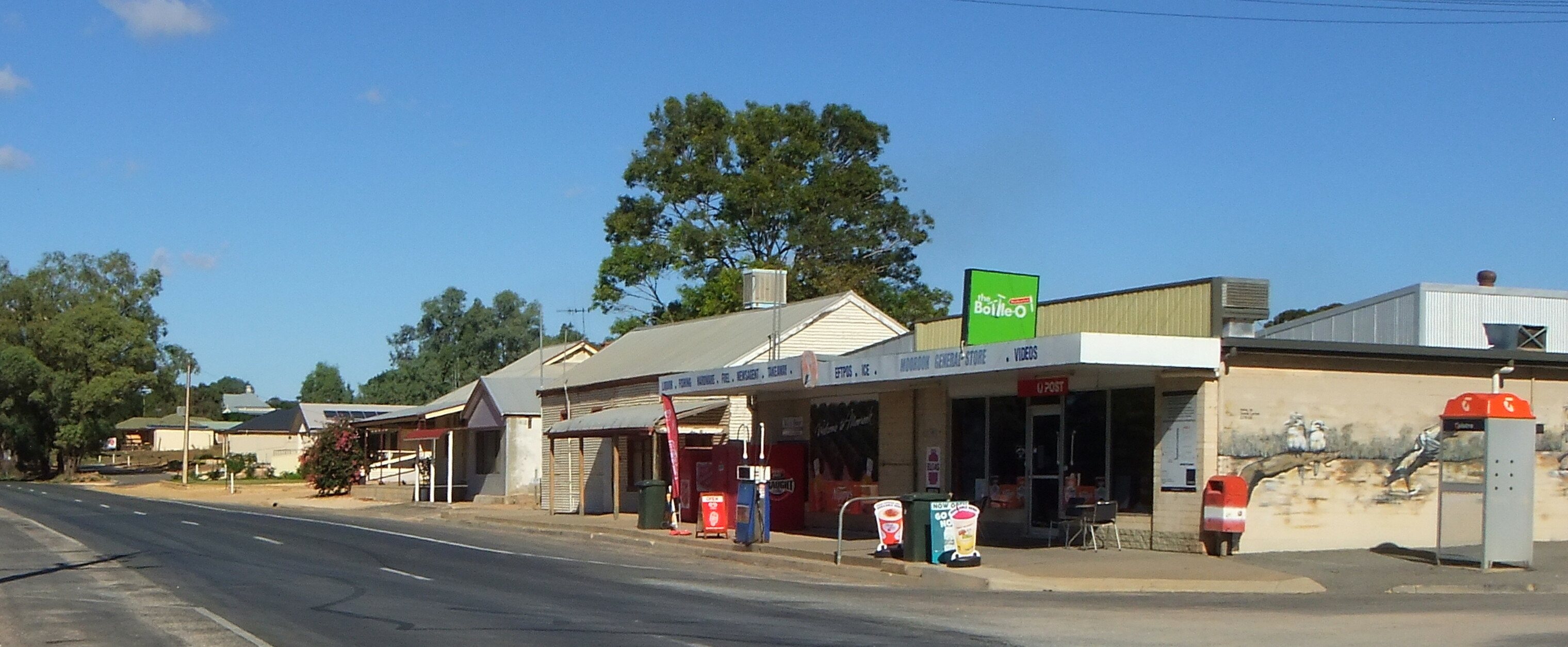 The main street in Moorook, South Australia.